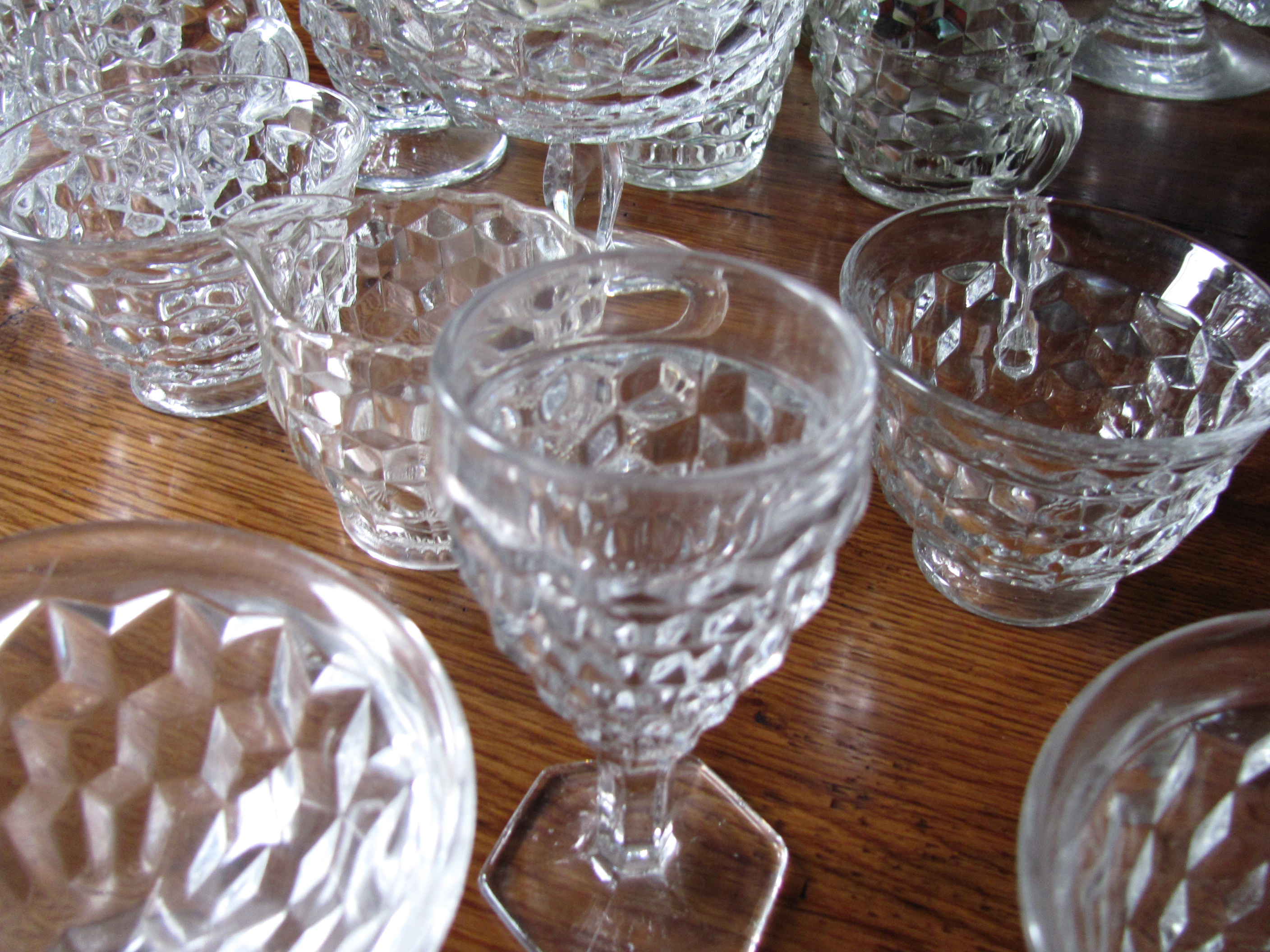 Fostoria American Glassware, Memphis Tennessee